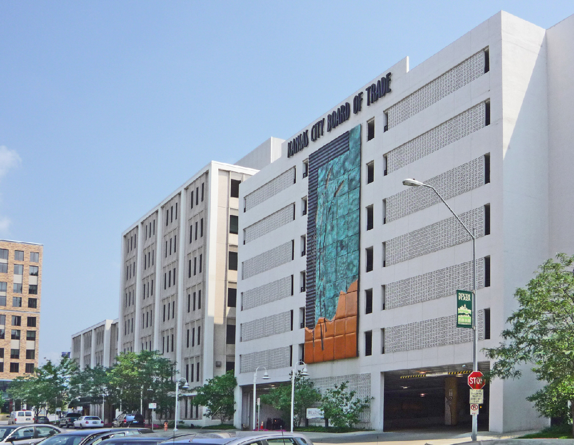 Kansas City Board of Trade, Kansas City, Missouri (W. 48th Street view)